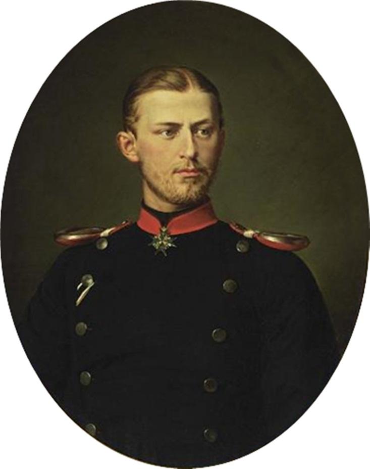 Portrair of S.A.R. the Prince Antoine de Hohenzollern-Sigmaringen as a Prussian officer